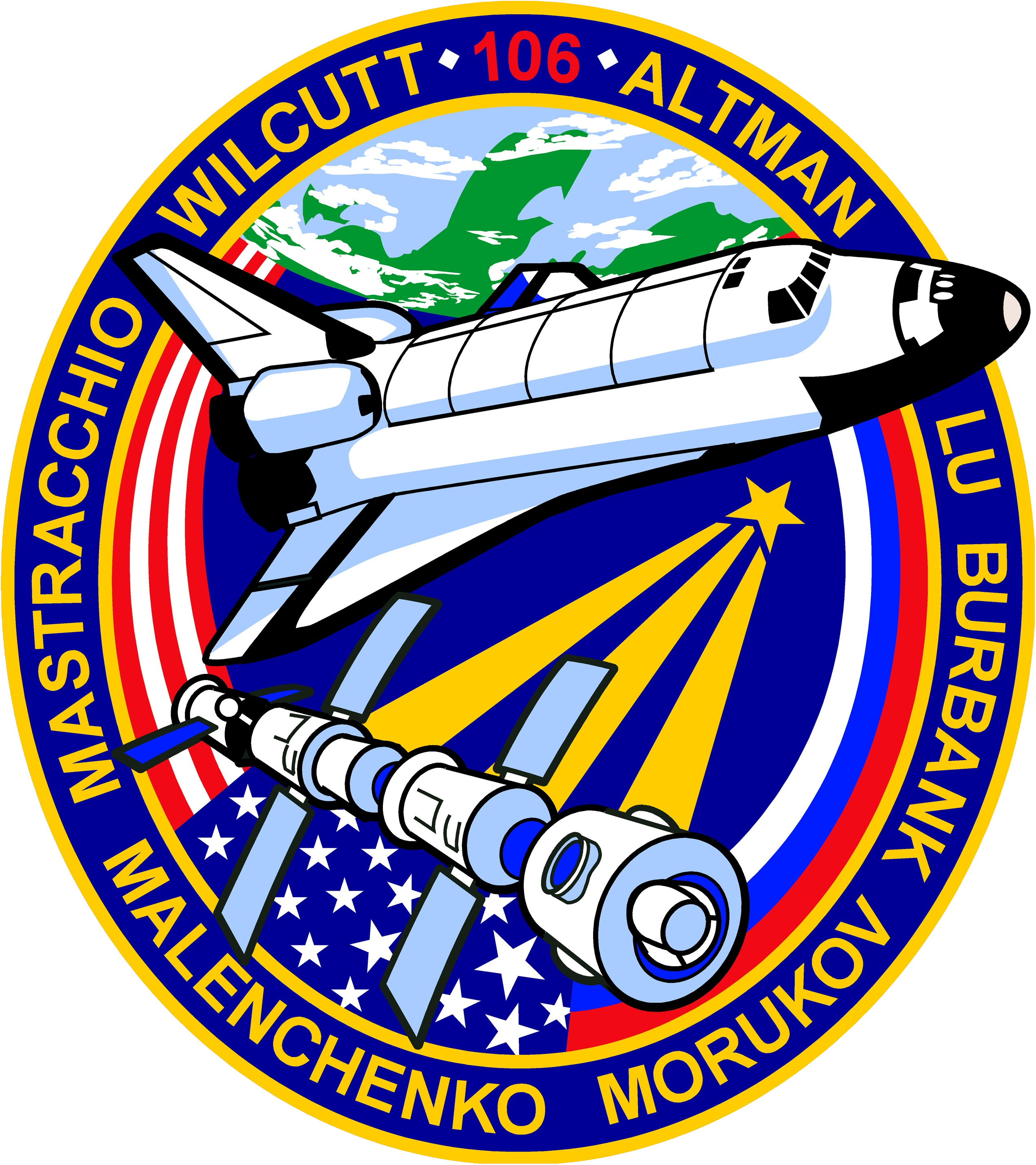 This is the crew patch for the STS-106 mission, which is the first Shuttle flight to the International Space Station since the arrival of its newest component, the Russian-supplied Service Module Zvezda (Russian for star). Zvezda is depicted on the crew patch mated with the already orbiting Node 1 Unity module and Russian-built Functional Cargo Block, called Zarya (sunrise), with a Progress supply vehicle docked to the rear of the Station. The International Space Station is shown in orbit with Earth above as it appears from the perspective of space. The Astronaut Office symbol, a star with three rays of light, provides a connection between the Space Shuttle Atlantis and the Space Station, much the same as the Space Shuttle Program is linked to the International Space Station during its construction and future research operations. Stylized versions of flags from Russia and the United States meet at the Space Station. They symbolize both the cooperation and joint efforts of the two countries during the development and deployment of the permanent outpost in space as well as the close relationship of the American and Russian crew members.